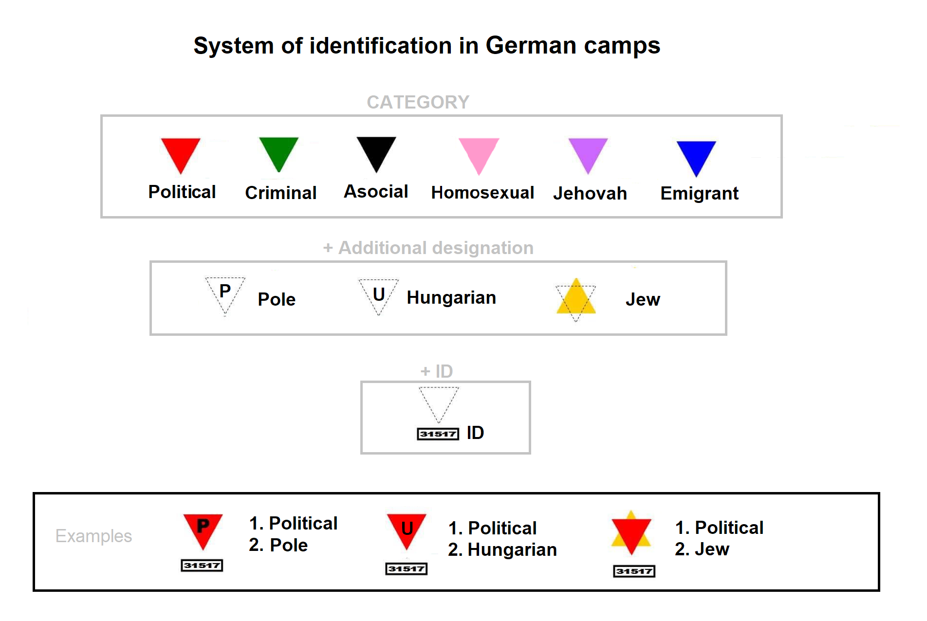 system of identification German camps